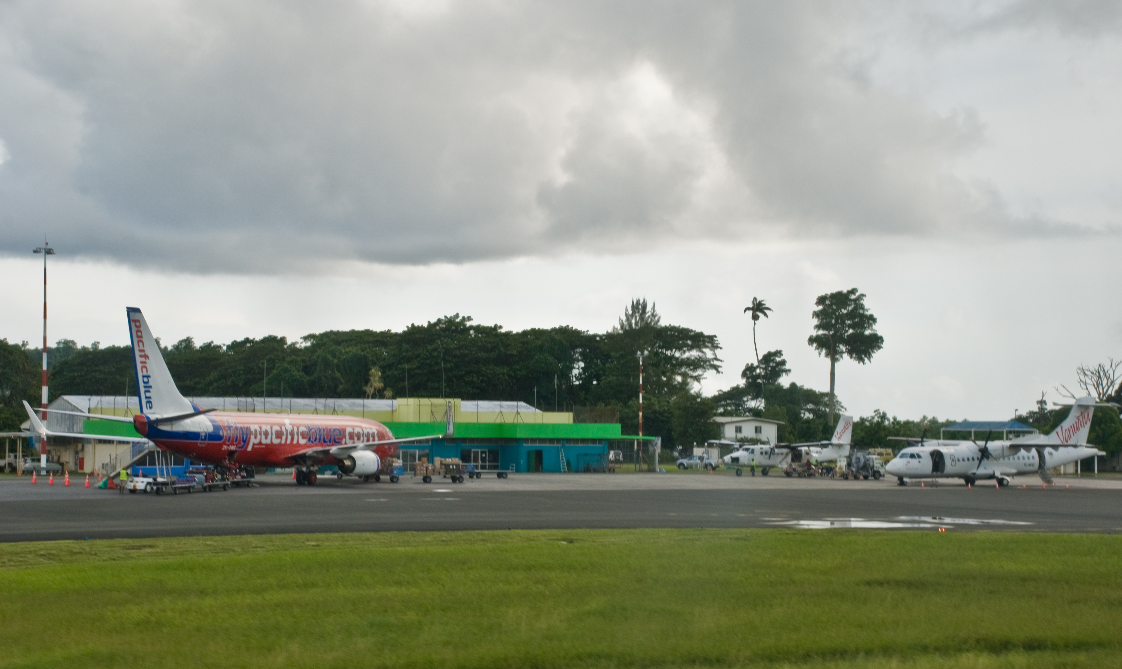 Bauerfield International Airport